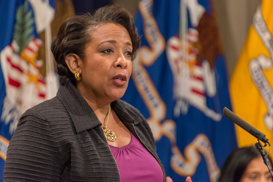 Attorney General Loretta E. Lynch speaking at a 2016 naturalization ceremony